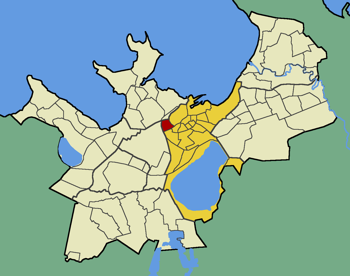 Map of Tallinn (Estonia) with borders of the quarters, Kesklinn district and Kassisaba quarter emphasised